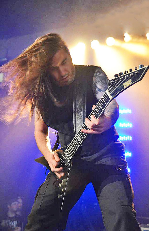 Performing live with Kataklysm in 2012